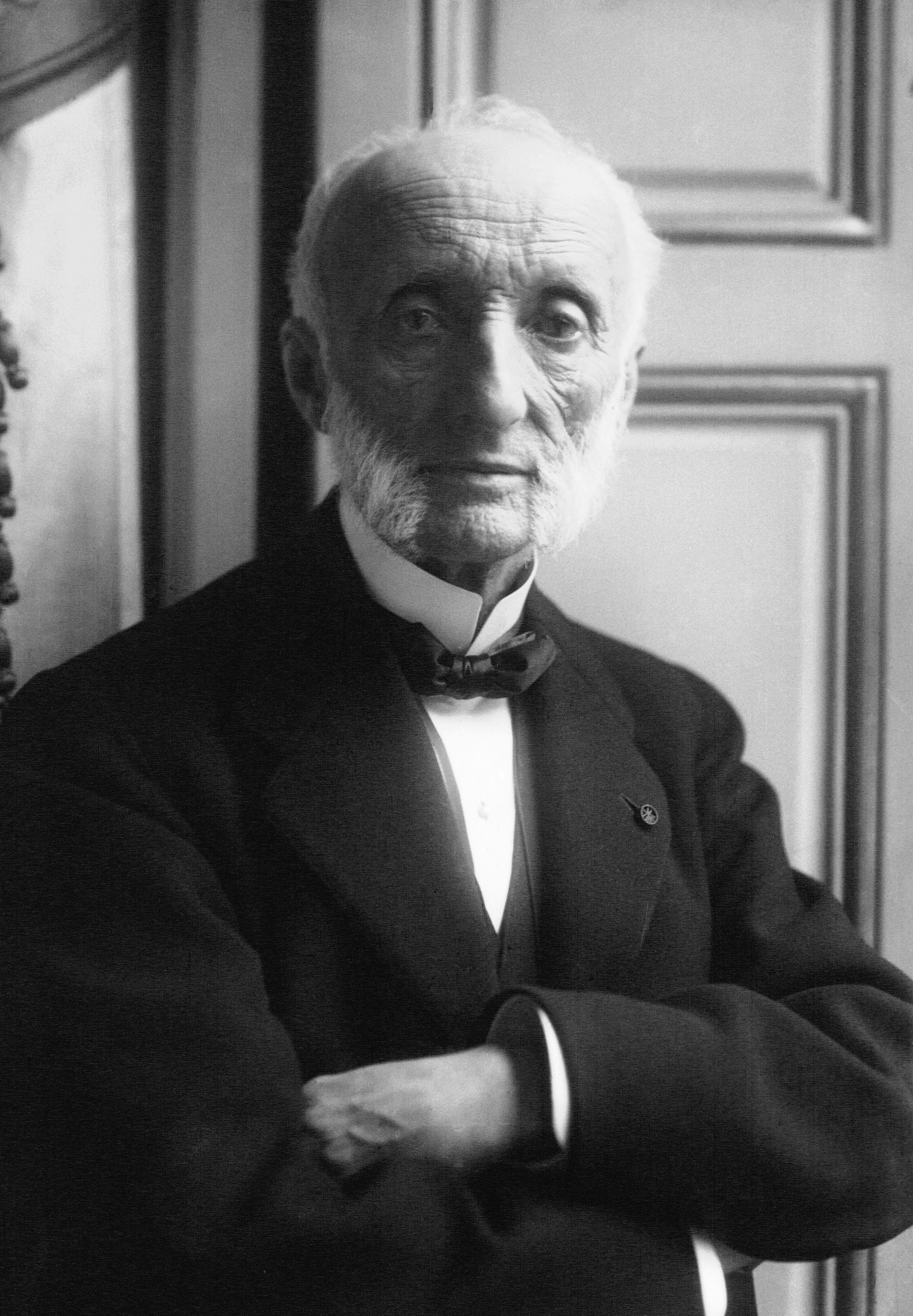 Jules Méline (1838 - 1925), french politician. 1915.